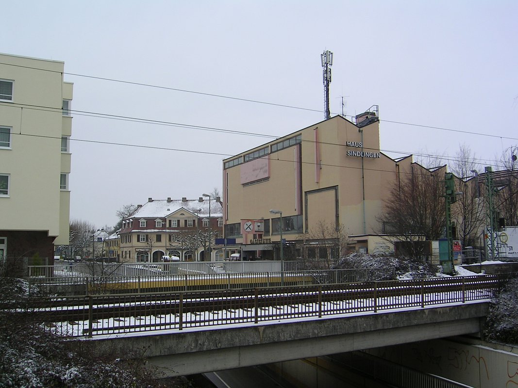 View on the Sindlinger Bahnstraße, the main street of the district Sindlingen, from a footbridge at the S-Bahn station.